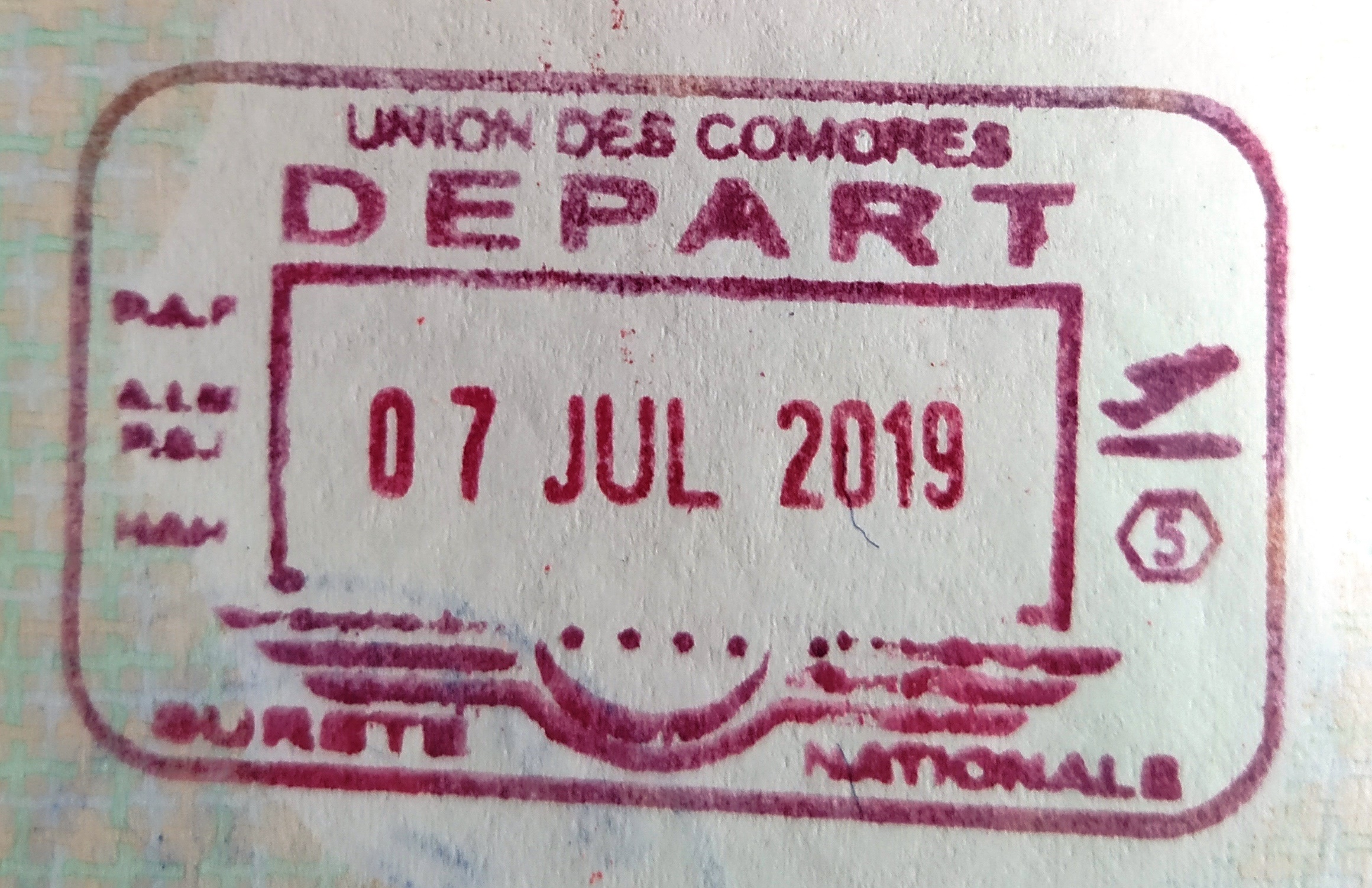 Exit stamp of Comoros, photographed from passport